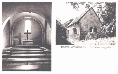 The Wittekindsquelle in Porta Westfalica, local centre Barkhausen, Germany, 1928